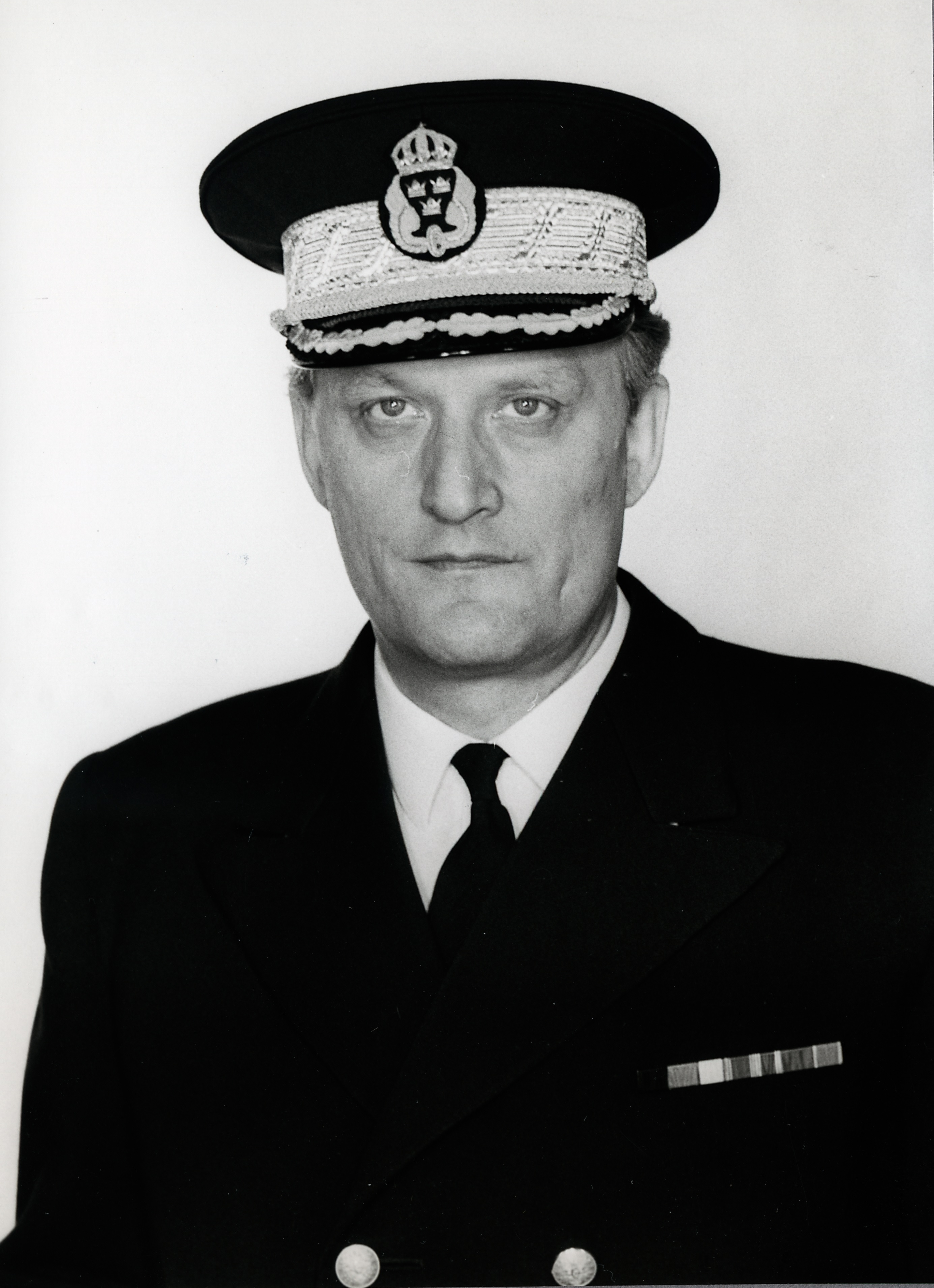 Erik Upmark (1904-1990), director-general of Swedish State Railways from 1949 to 1969, in railway uniform for director-general.